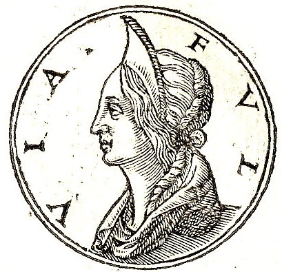 Fulvia was an aristocratic Roman woman who lived during the Late Roman Republic.